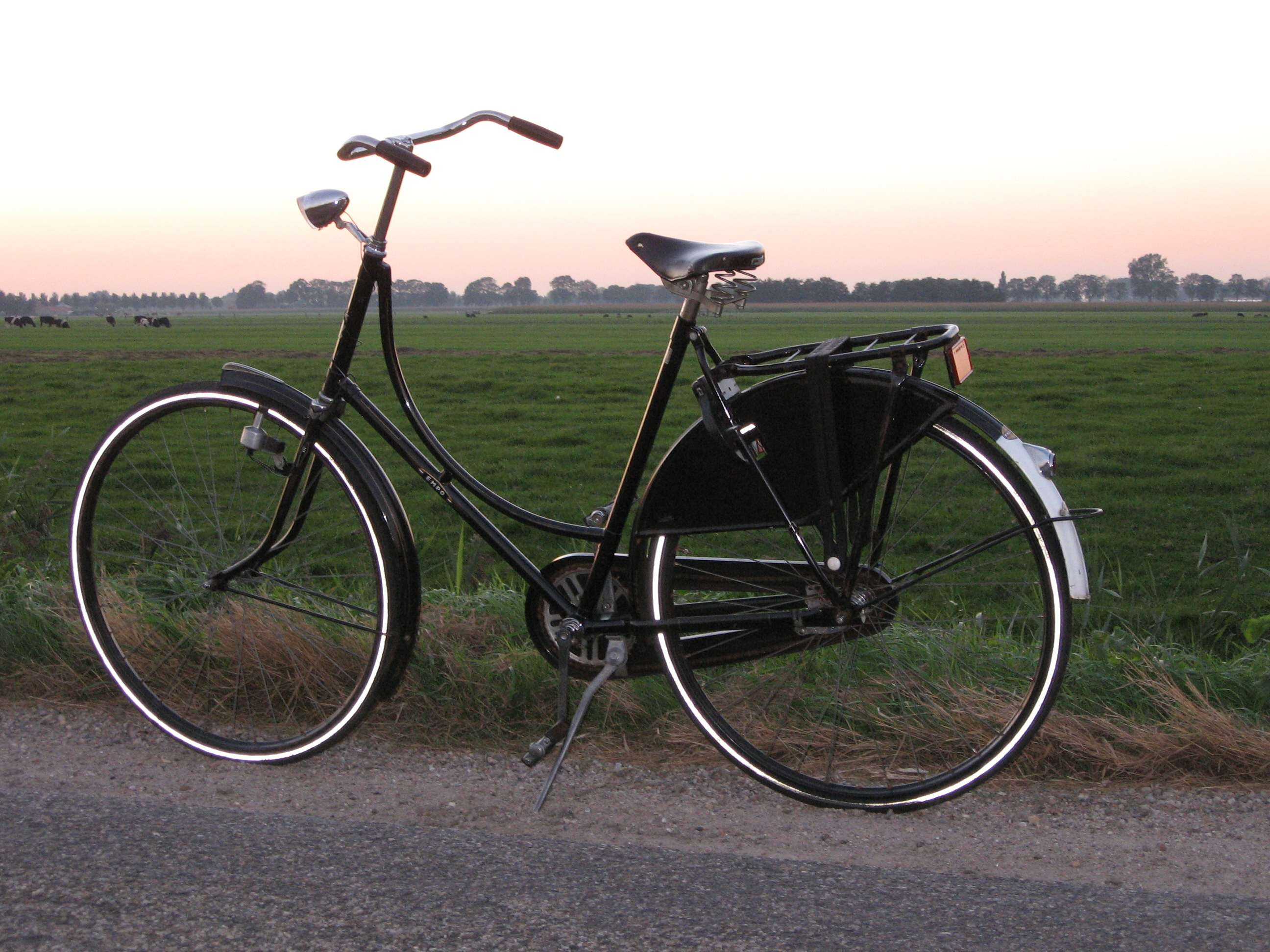 A ladies roadster know in the Netherlands as Omafiets